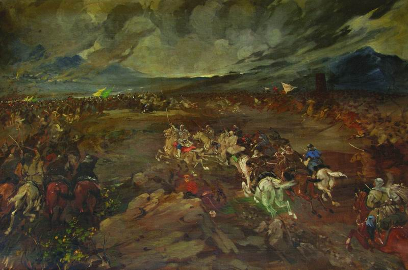 Valerian Sidamon-Eristavi (1889–1943). Battle of Krtsanisi.